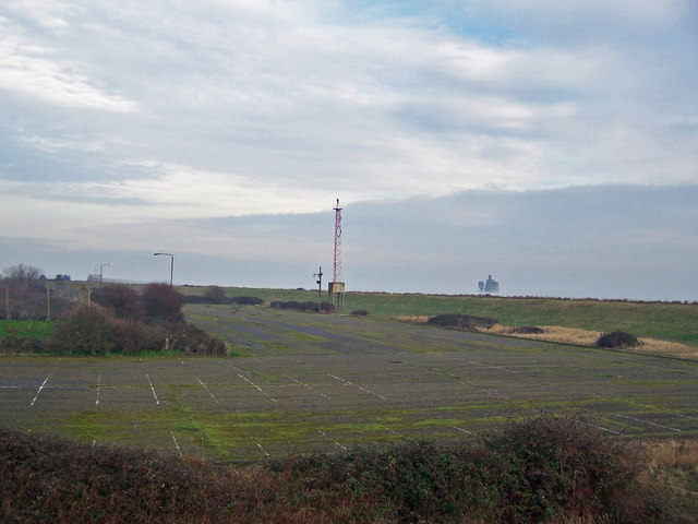 Abandoned car park This long-abandoned car park served a now demolished office building which was part of the Grain oil refinery complex. (Also long-since demolished). The structure in the centre of the picture is a navigation beacon, while the building looking as if it is floating in the mist above the horizon is Grain Tower in square TQ8976.